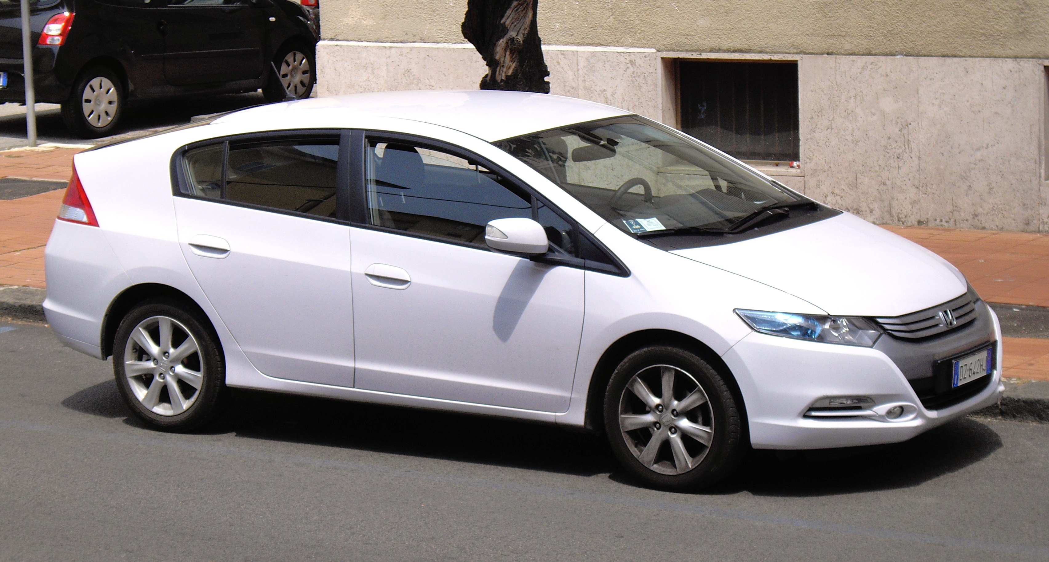 Honda Insight